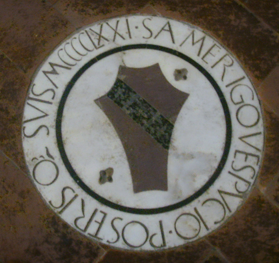 Plaque dated 1471 for the tomb of Amerigo Vespucci, died 1468, actually the grandfather of the famous navigator Amerigo Vespucci. In Ognissanti church in Florence, Italy. Includes coat of arms on Italian "horse-head" shaped shield.